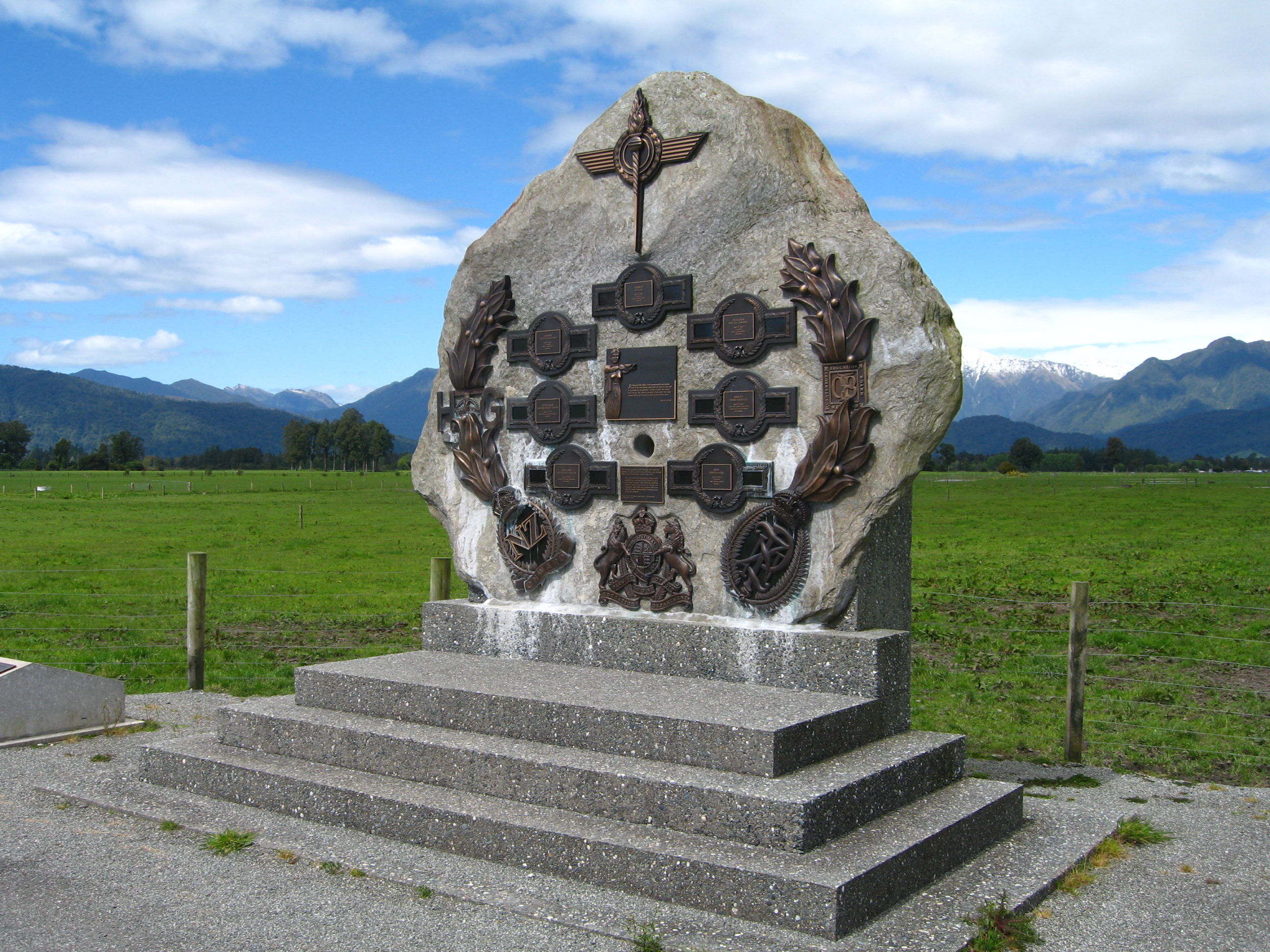 Memorial for the Koiterangi Incident, Kowhitirangi (also called Kowhitirangi incident), West Coast of New Zealand. The memorial is mounted on a rock from nearby Diedrich's Creek, and was unveiled on 8 October 2004. The artist was Barry Thomson of Glenavy.